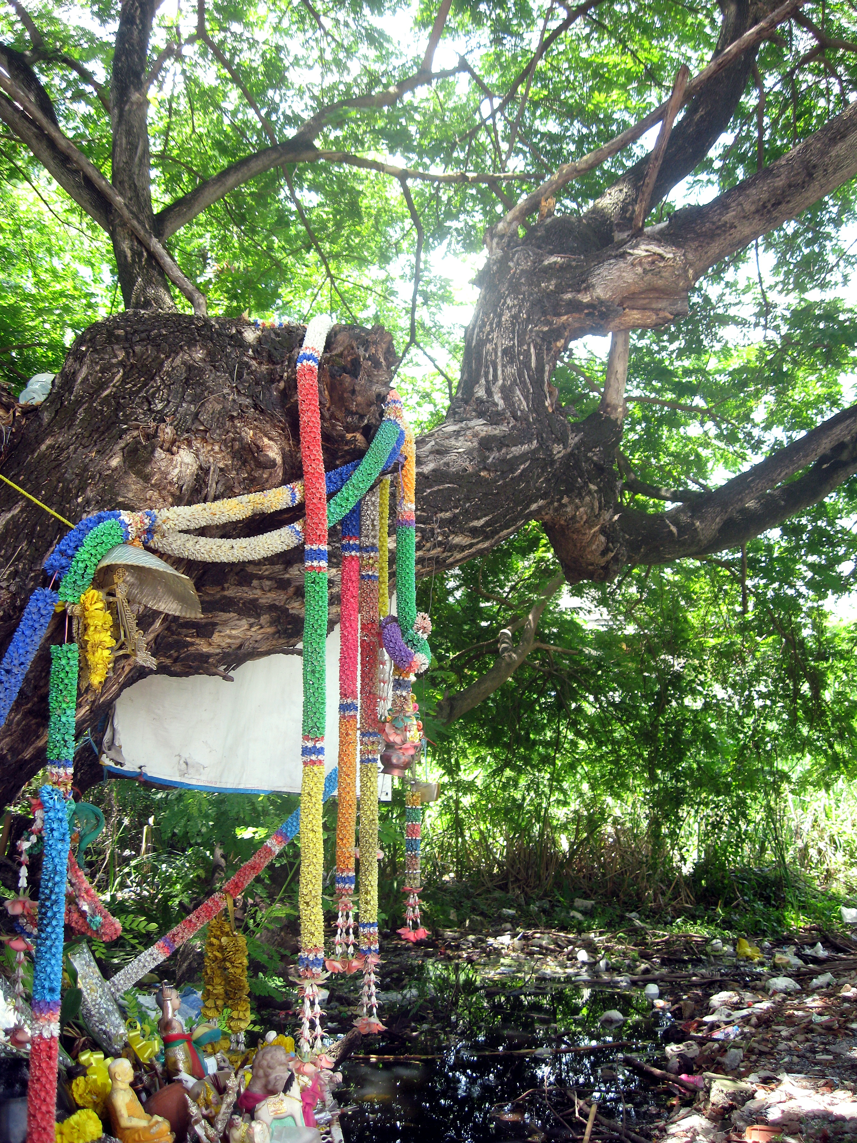 Thai beliefs about spirits in a tree :O))